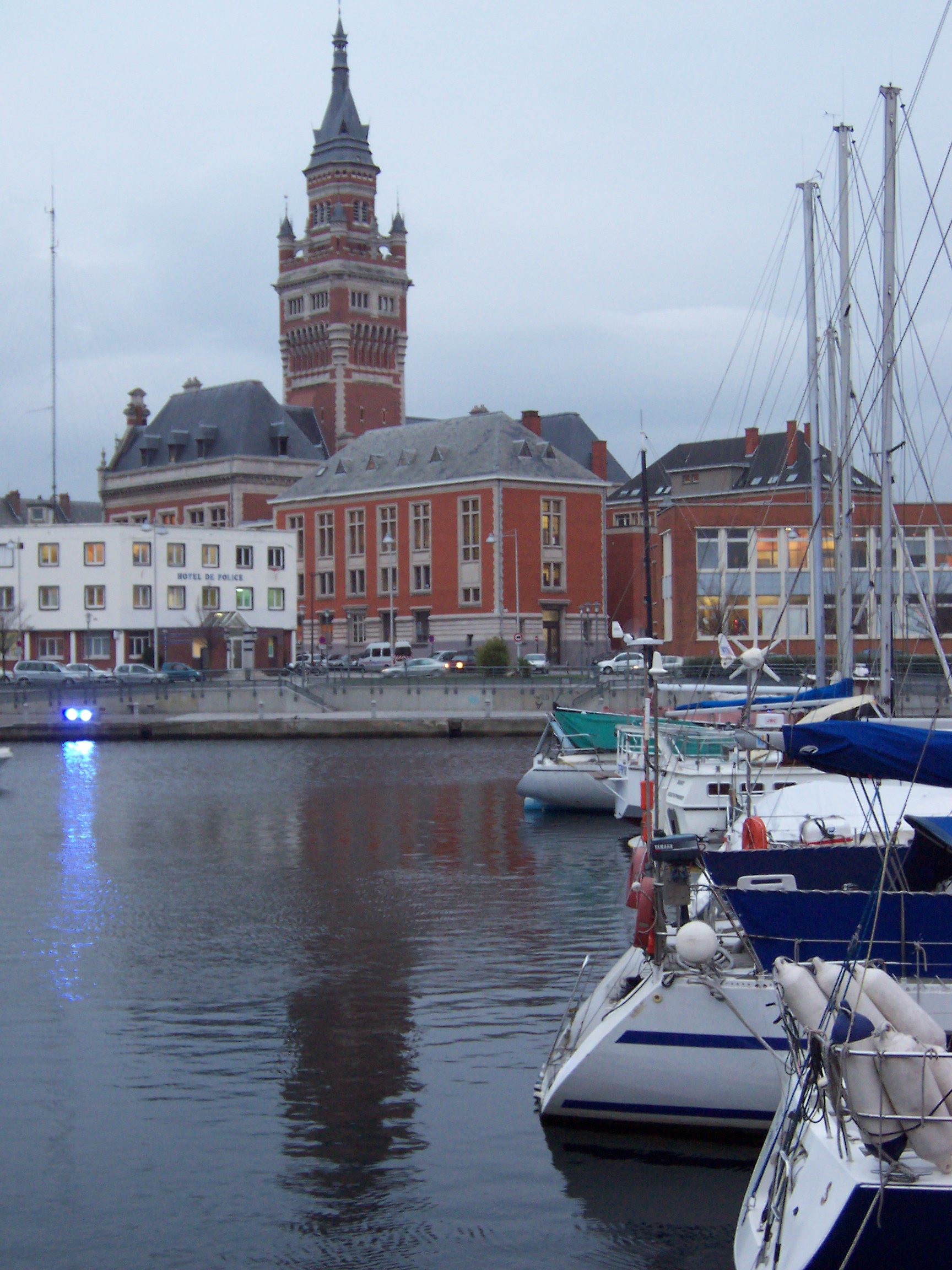 boats and town hall of Dunkerque